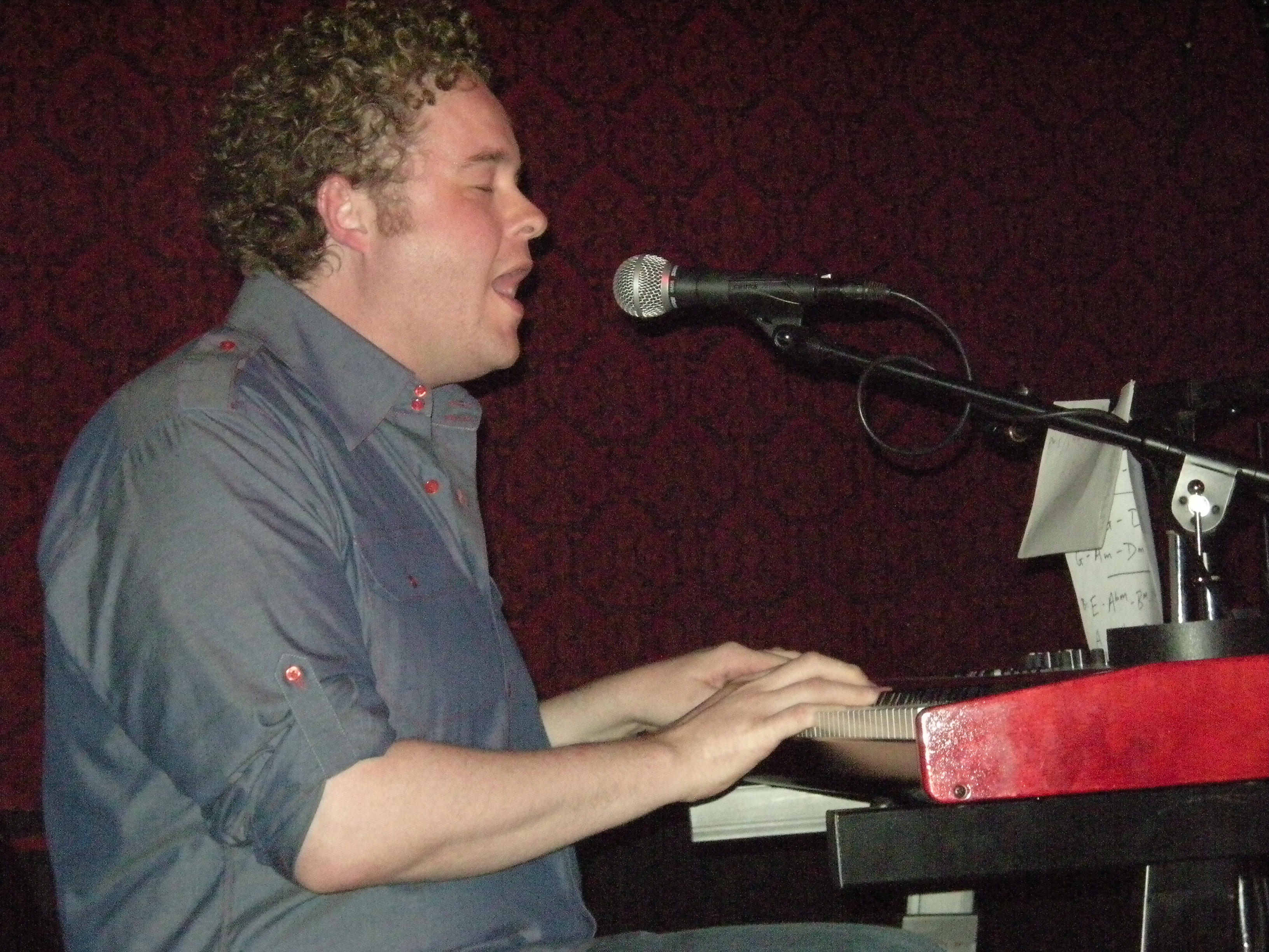 Sean Nelson of Harvey Danger performing as part of EMP Pop Conference Night at the Sunset in Seattle's Ballard neighborhood, part of the 2009 Pop Conference, Experience Music Project, Seattle, Washington.